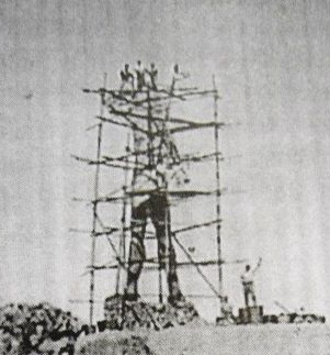 Construction of the Indio Comahue Monument in Villa Regina, Río Negro Province.